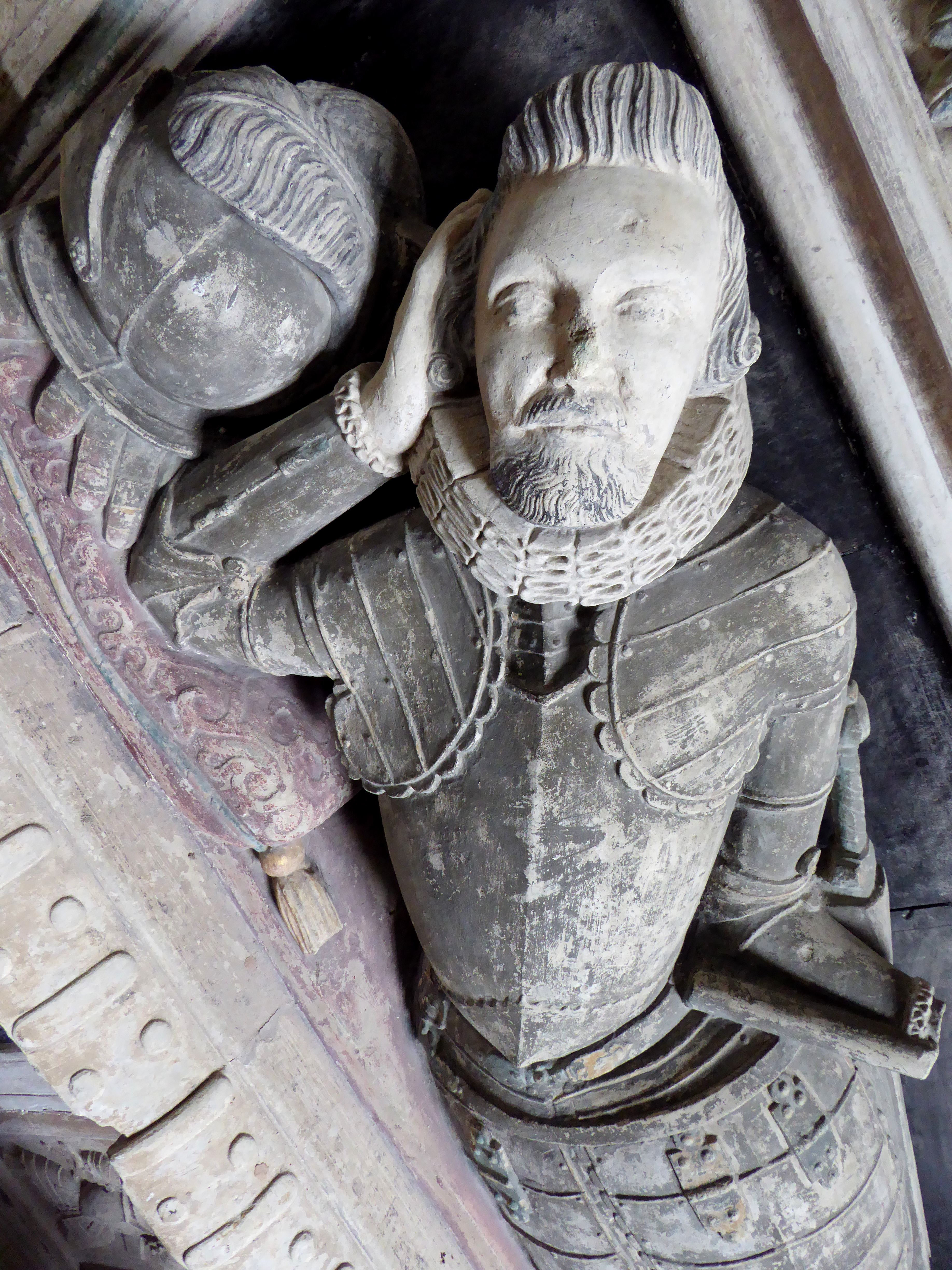 Effigy of Richard Cole (1568-1614) of Bucks in the parish of Woolfardisworthy in North Devon, All Hallows Church, Woolfardisworthy.